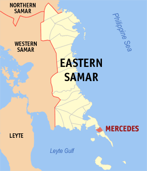 Map of Eastern Samar showing the location of Mercedes